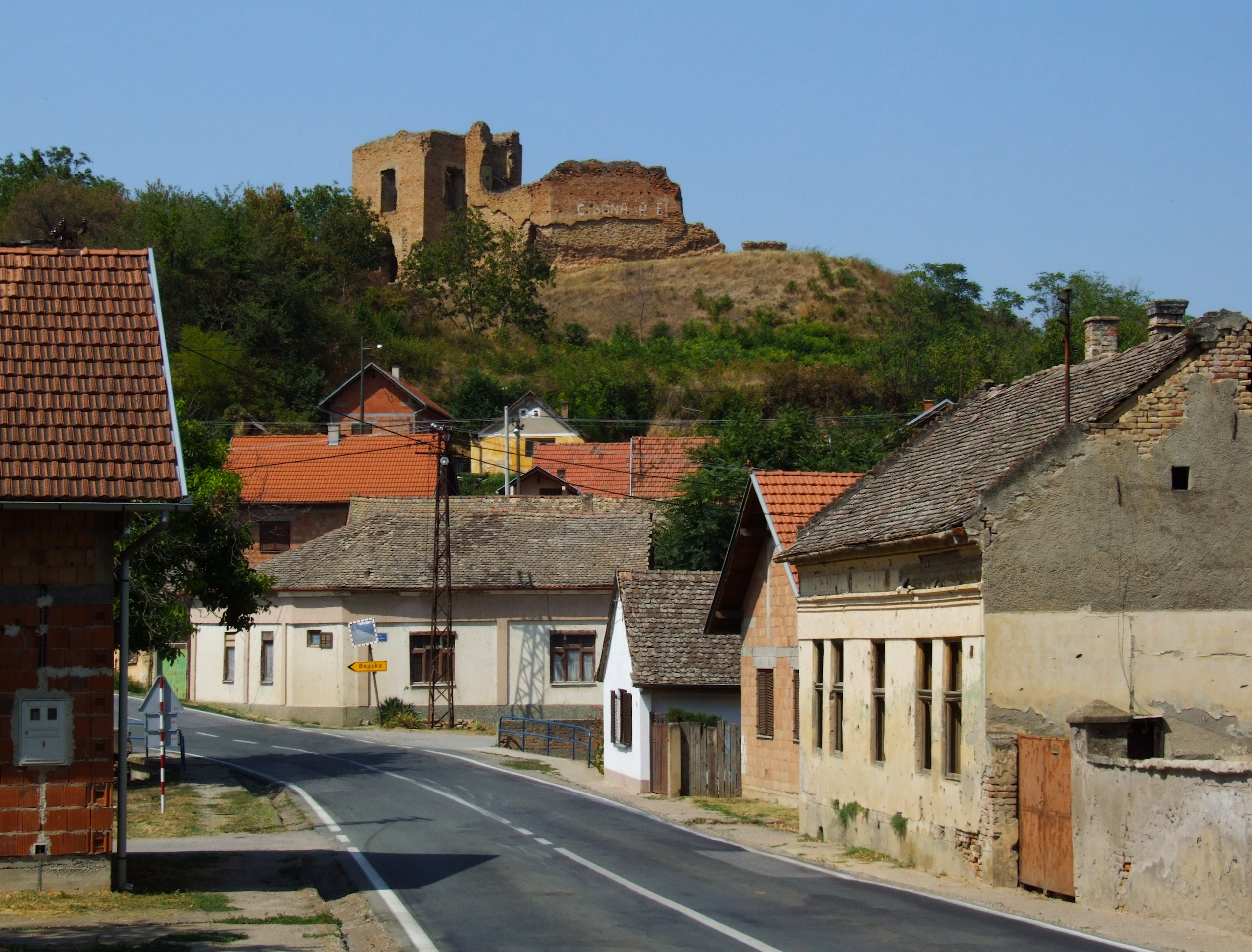 Village Šarengrad (Hungarian: Sarengrád) in Syrmia, Croatia